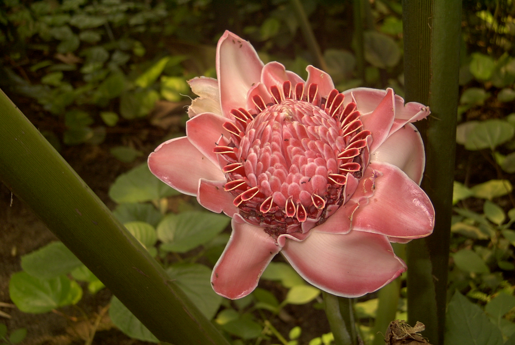 an Etlingera elatior (Torch Ginger or Ginger Flower) in flower